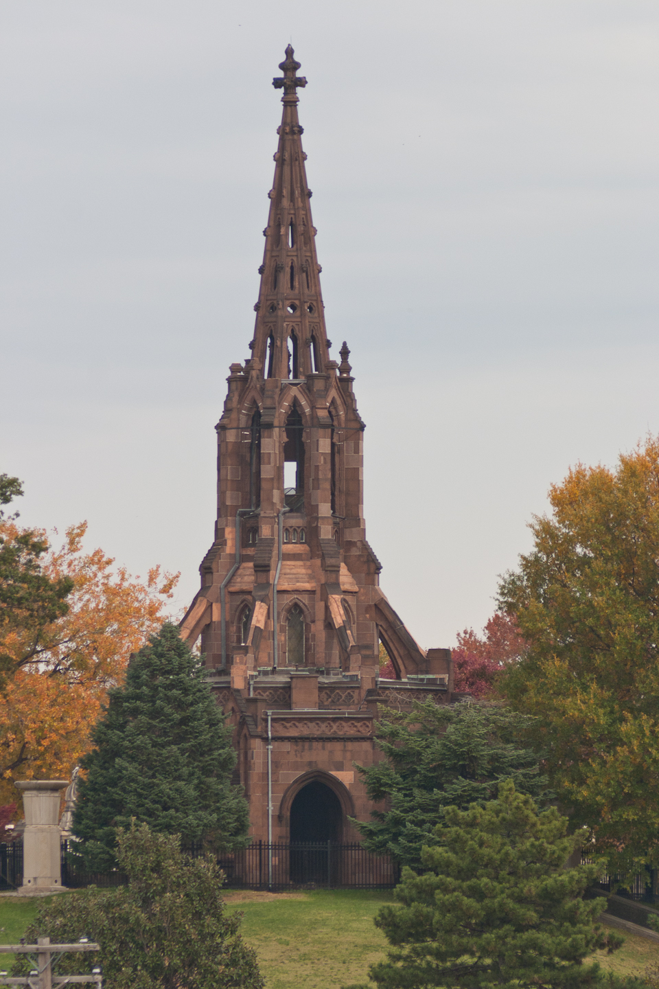 Chapel at Greenmount Cemetery, Baltimore, Maryland, designed by John Rudolph Niernsee and James Crawford Neilson.